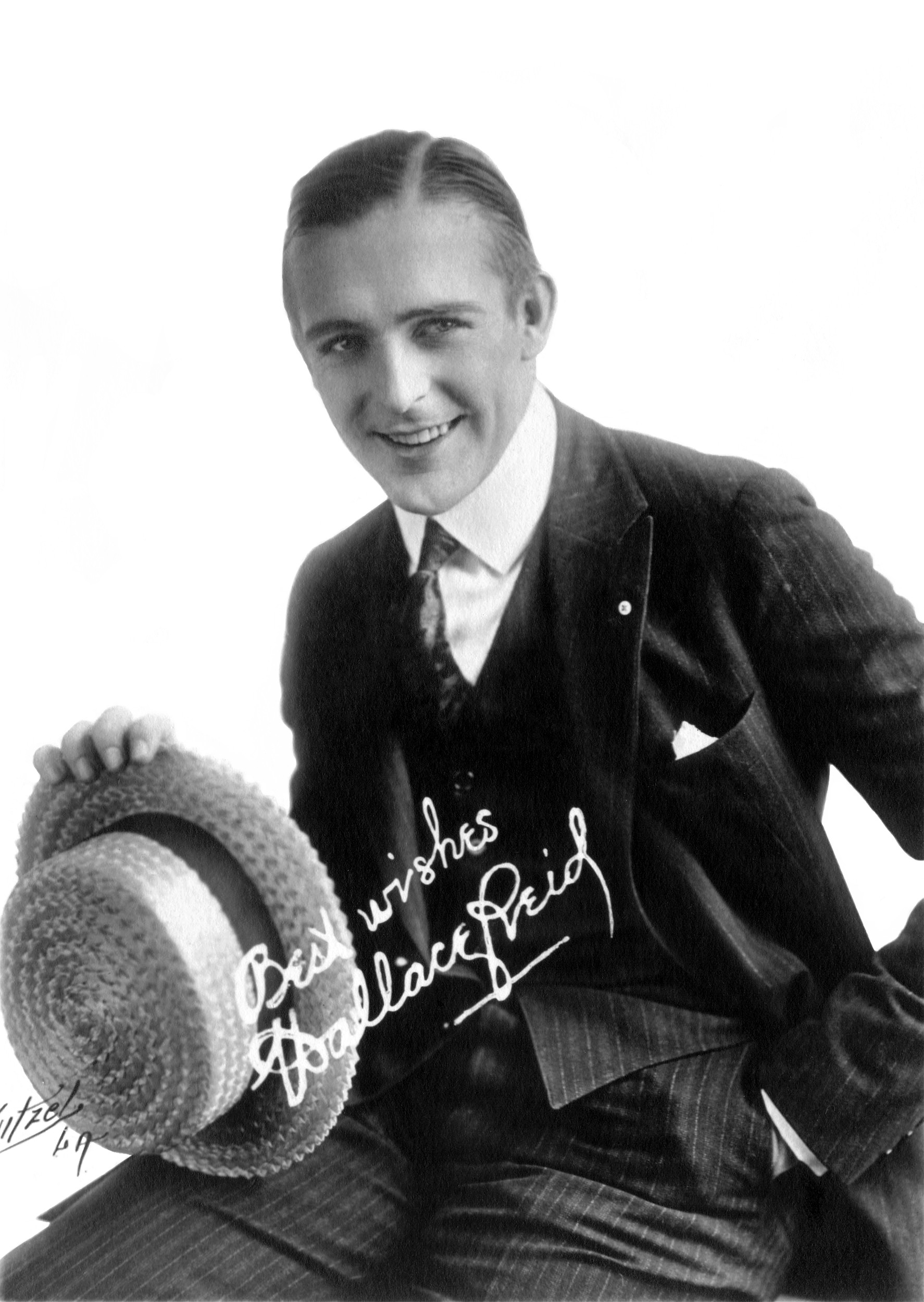 Portrait of American actor Wallace Reid (1891–1923) by American photographer Albert Witzel (1879–1929).